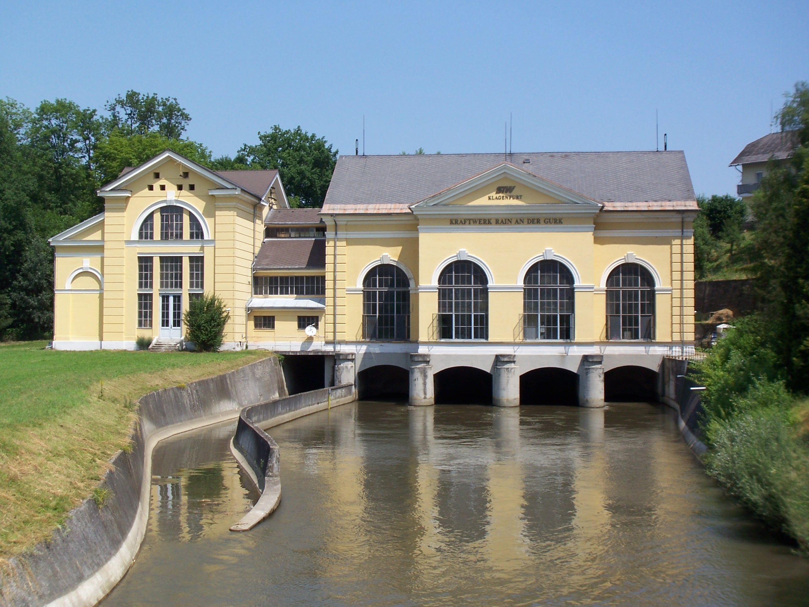 Hydro-Powerplant Rain (River Gurk) at Poggersdorf, built 1900-1902 in neo-classicistic style